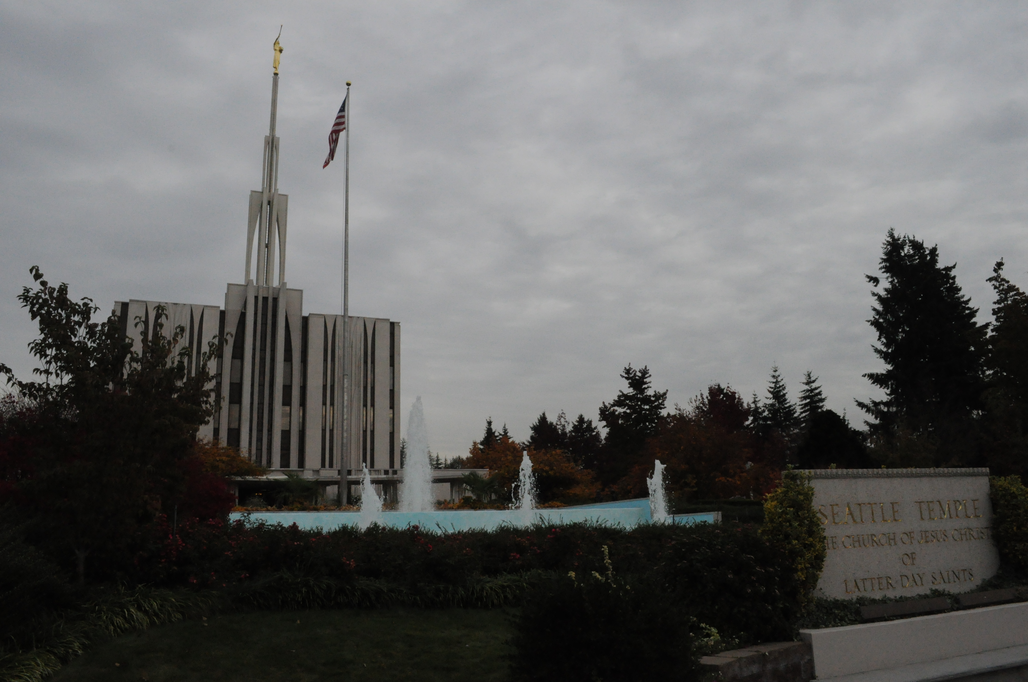 The Seattle Washington Temple of The Church of Jesus Christ of Latter-day Saints, Bellevue, Washington.